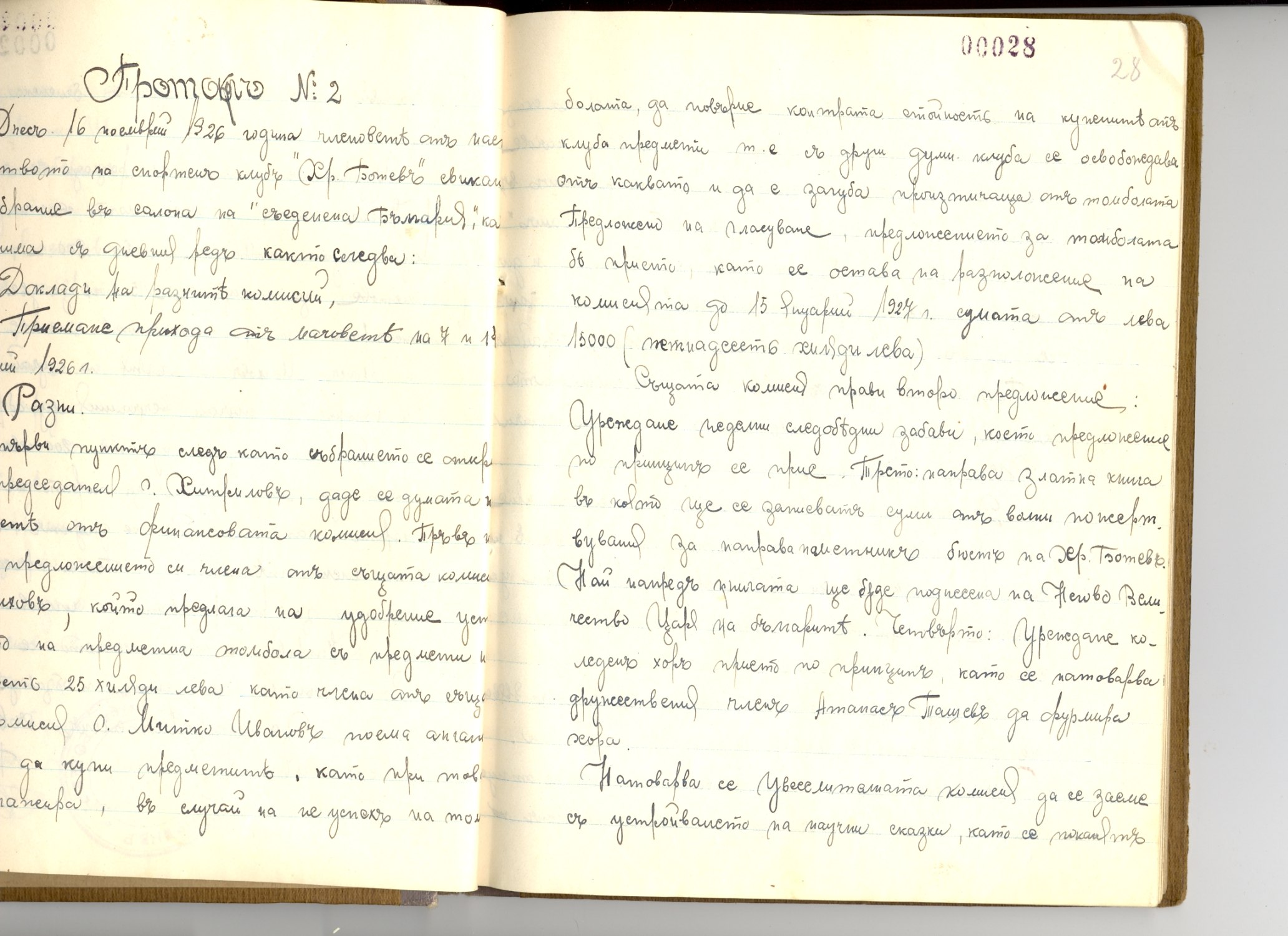 Page 28 from the oldest preserved Protocol book of FC Botev Plovdiv